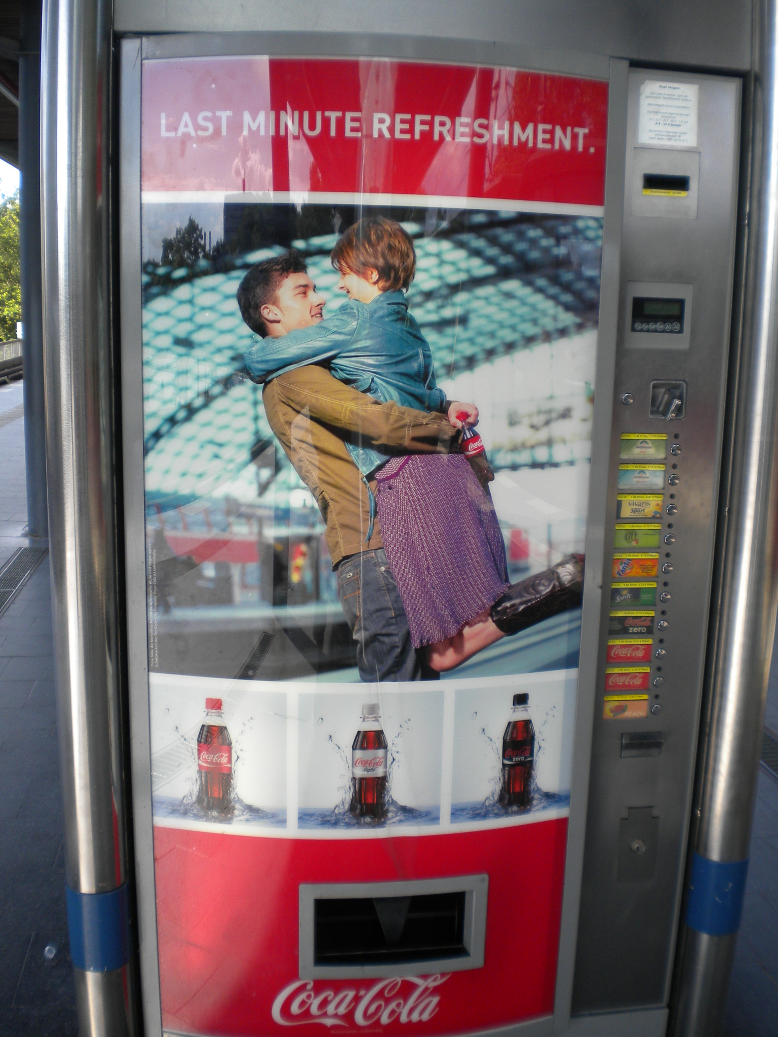 Last Minute Refreshment an ad in Berlin Germany